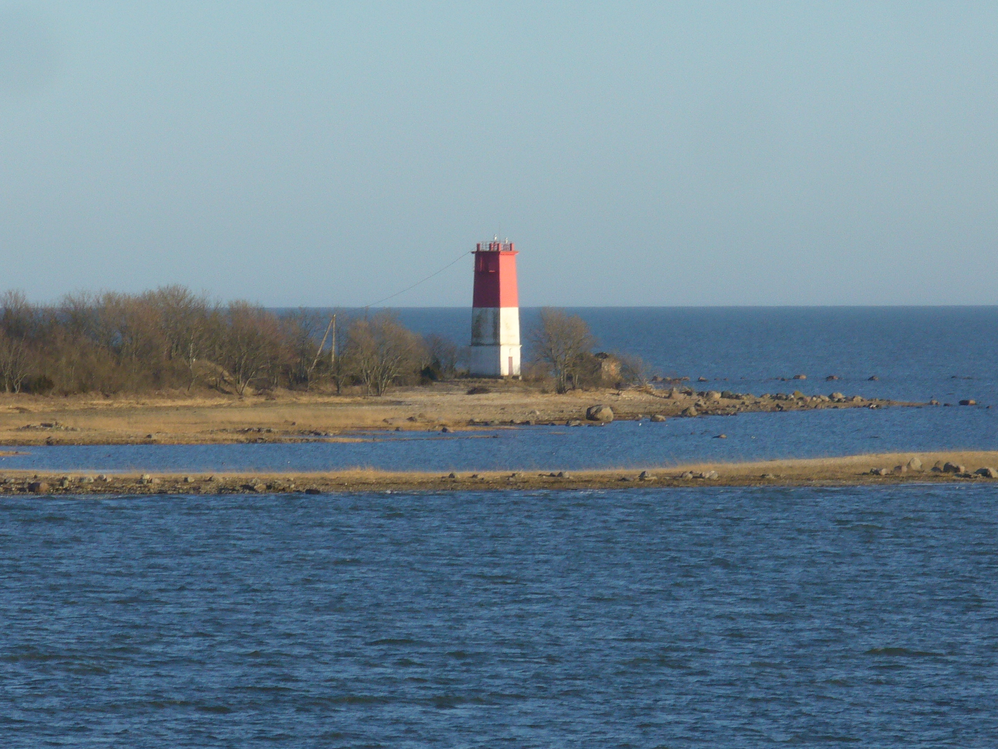 Virtsu lighthouse as seen from a bypassing ferry. Lääne County, Estonia.